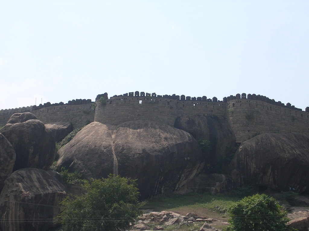 Thirumayam Fort in Tamil Nadu